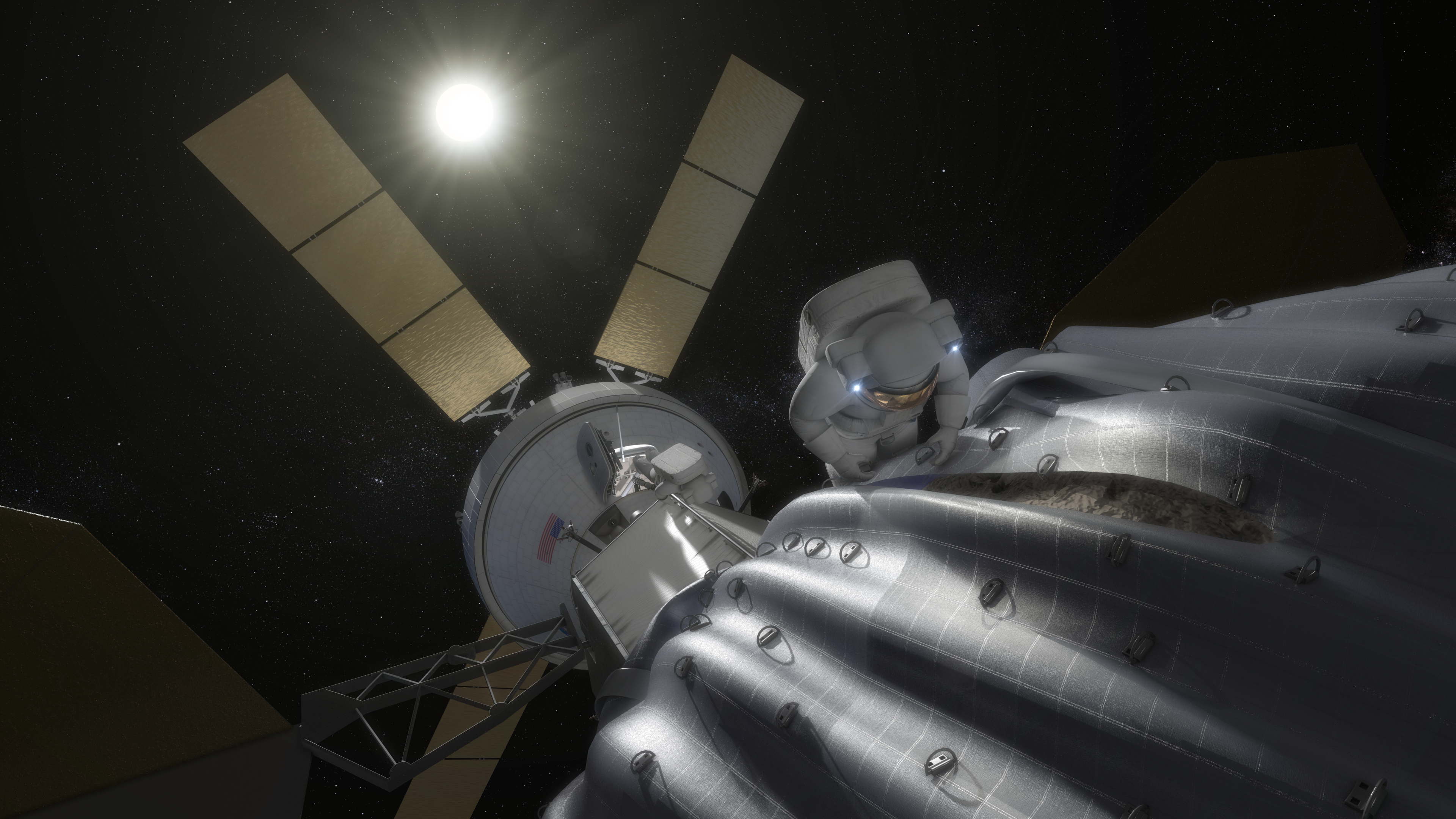 This concept image shows an astronaut preparing to take samples from the captured asteroid after it has been relocated to a stable orbit in the Earth-moon system. Hundreds of rings are affixed to the asteroid capture bag, helping the astronaut carefully navigate the surface.